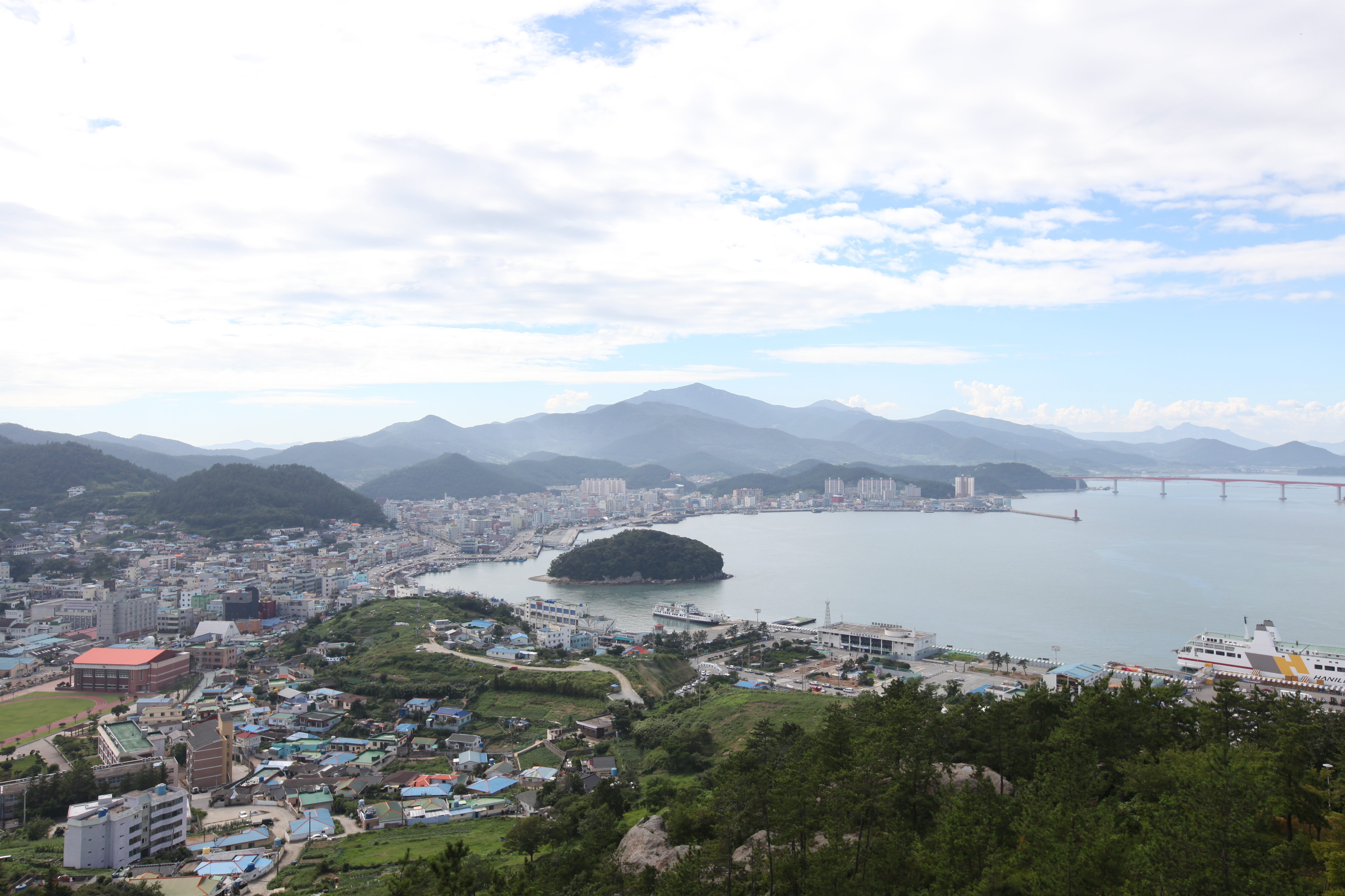 wandogun overview